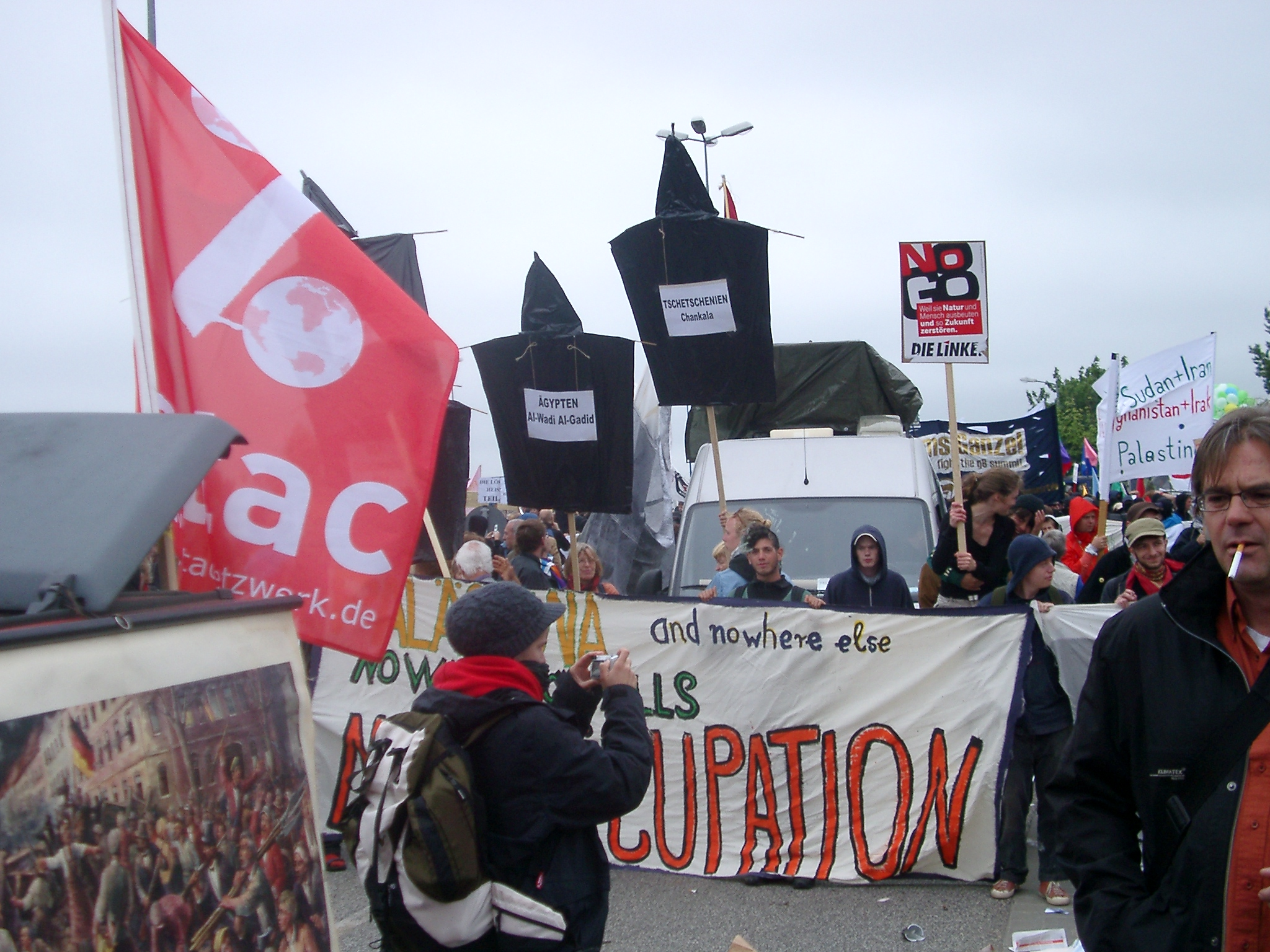 Palestine solidarity block in Rostock on June 2nd 2007